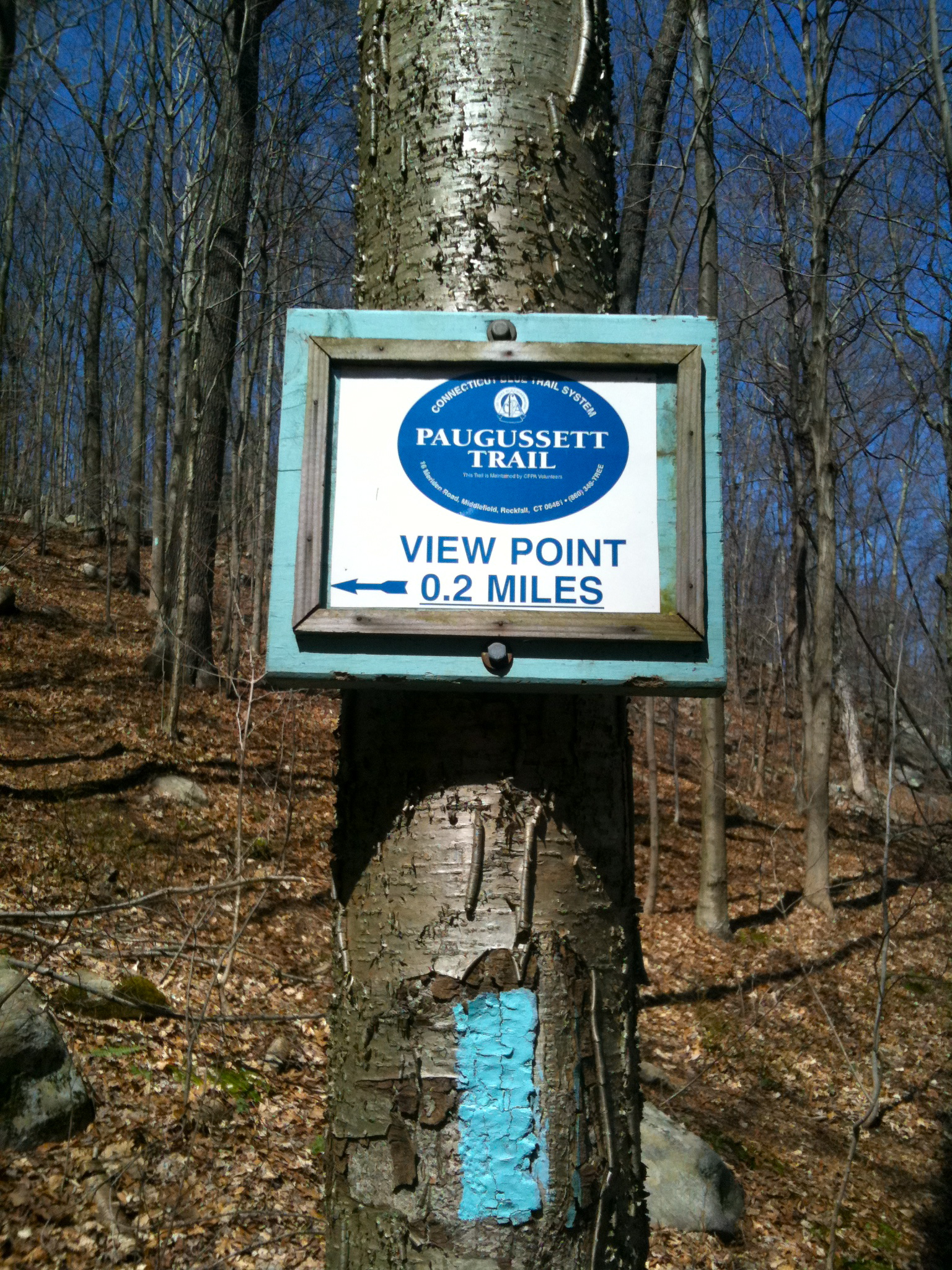 CFPA View Point sign and Blue Blaze on a tree along the Pauguseett Trail.